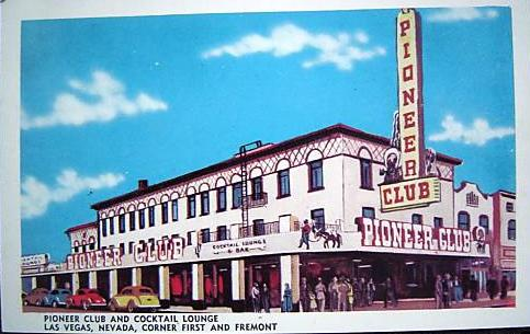 Postcard of the Pioneer Club in the late 40's — formerly in Downtown Las Vegas, Clark County, Nevada.